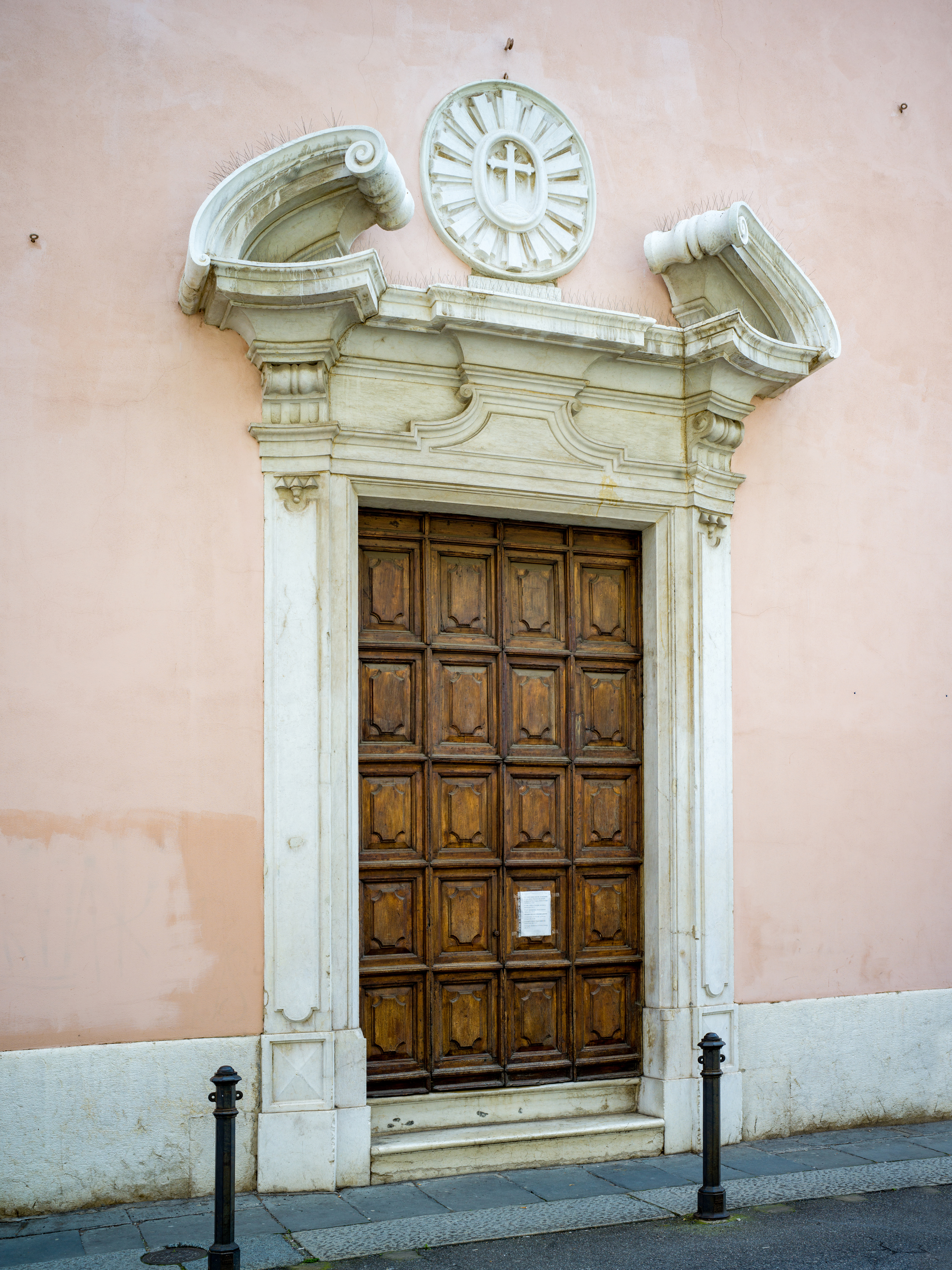 Portal of the Chiesa di Santa Croce church in Brescia.